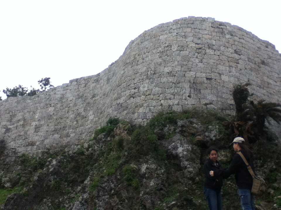 A reconstructed outer wall of Urasoe Castle.